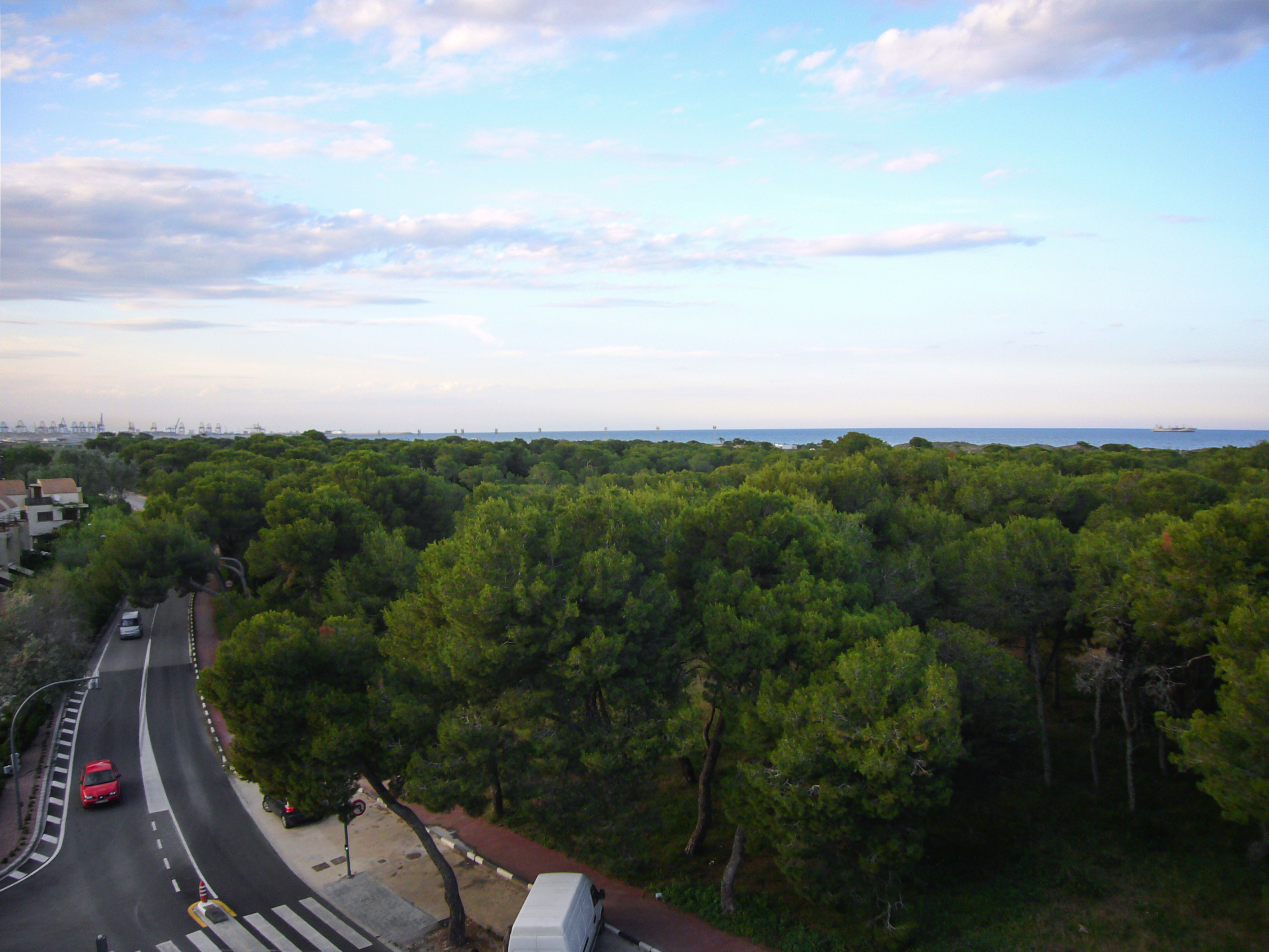 Pinnate view of the beach of El Saler and the Mediterranean Sea.